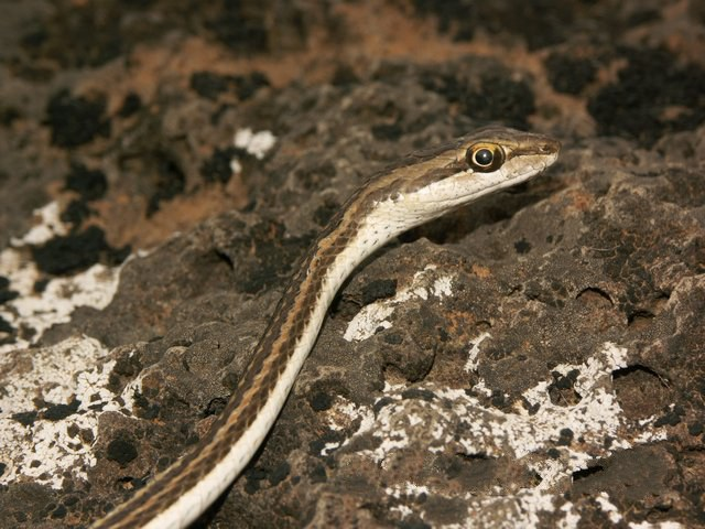 Psammophis schokari